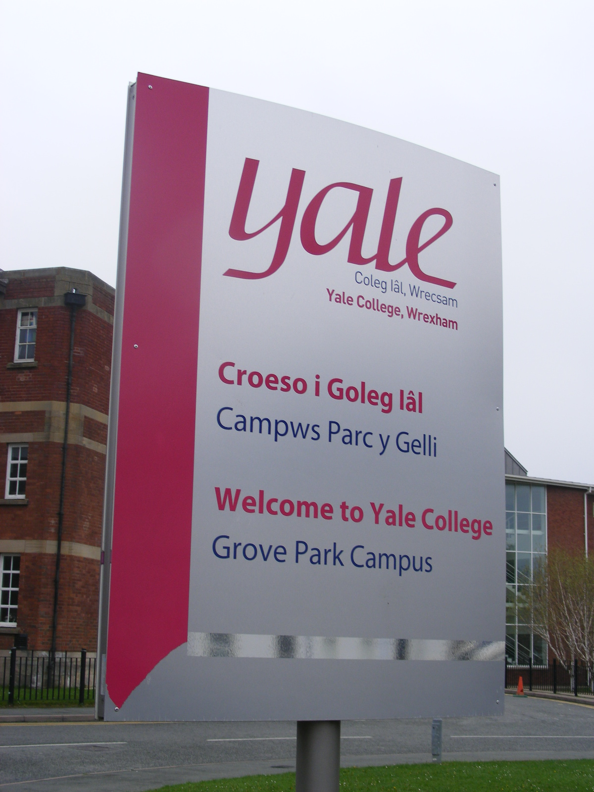 Bilingual signage at front of Yale College of Wrexham